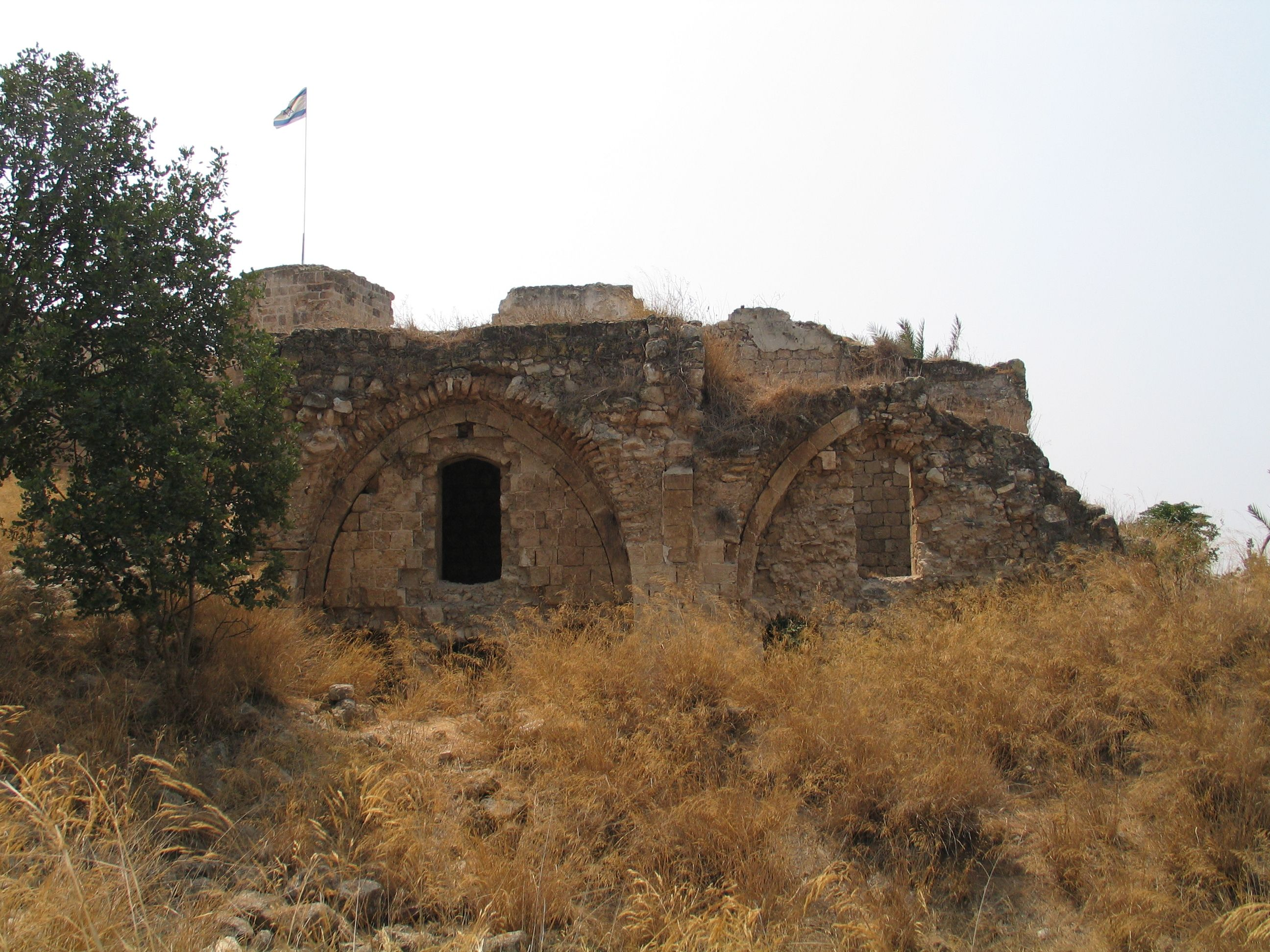 Qaqun fortress, Israel.